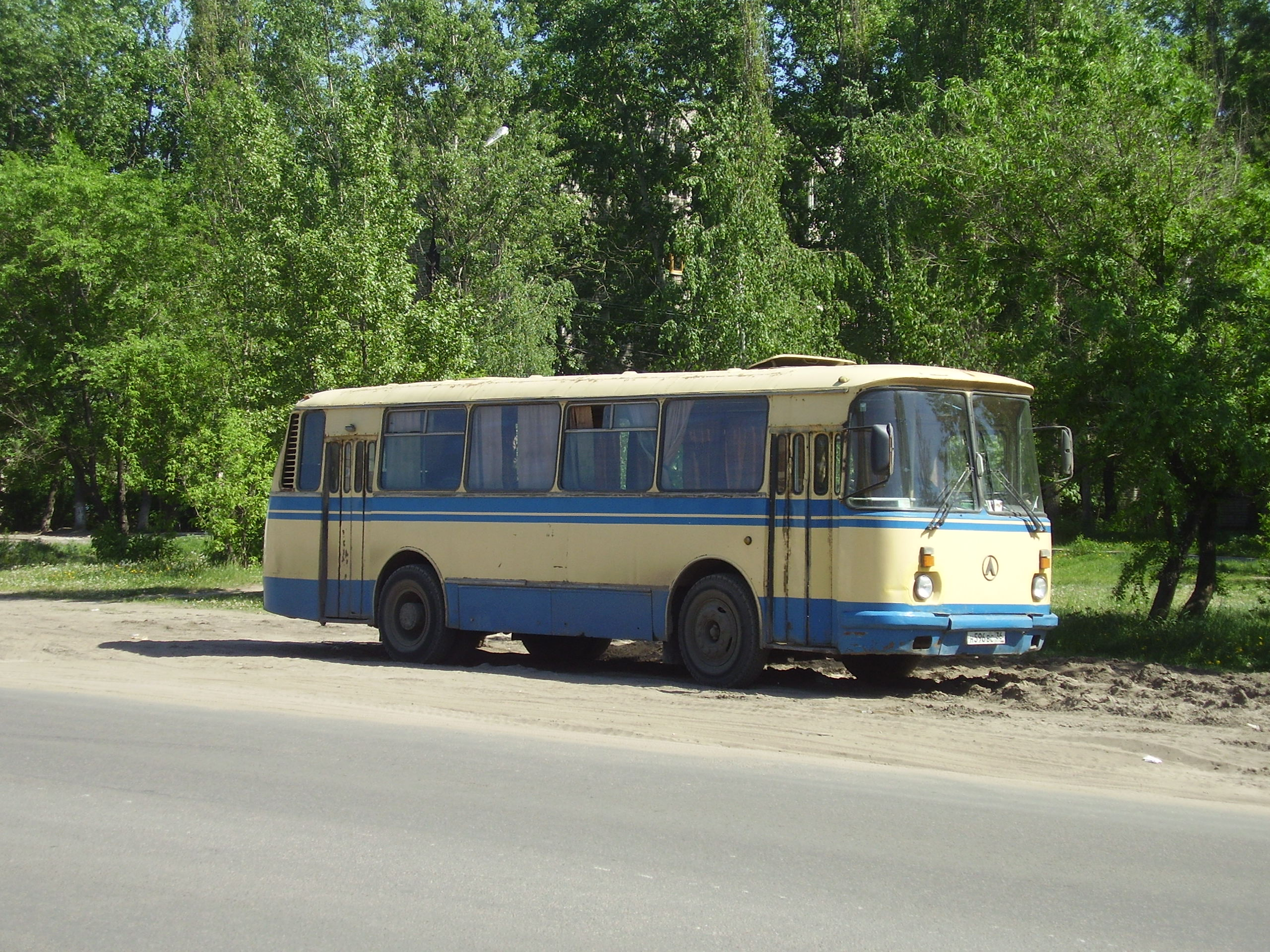 LAZ 695 bus in Voronezh, Russia.